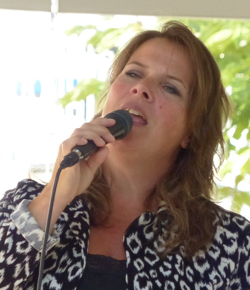 Sanna Van Vliet in Concert; Sommer 2018 in Bad Ems